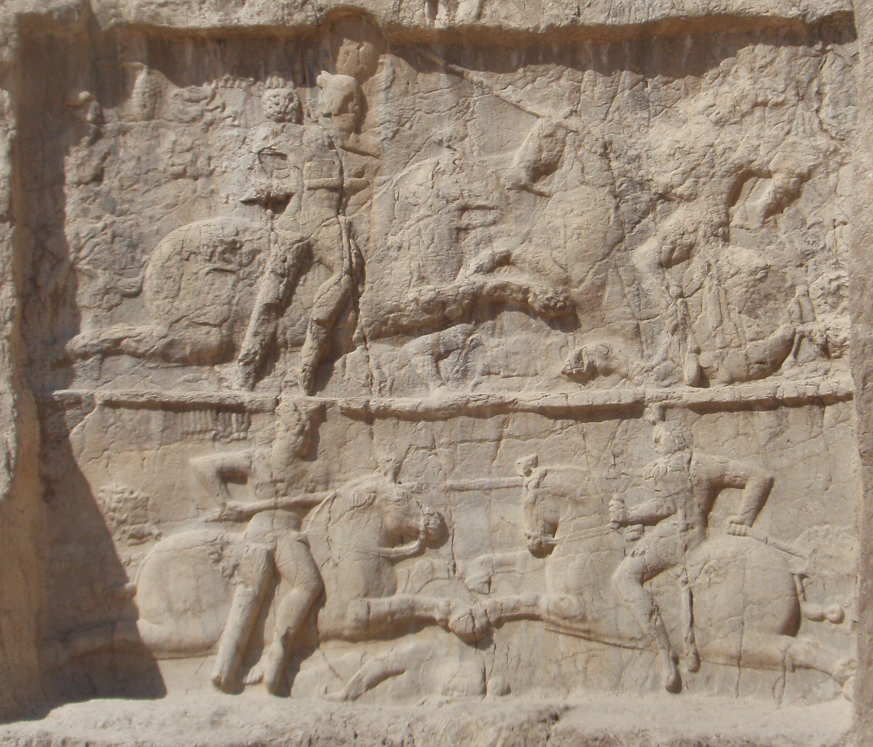 Relief "Victory of Bahram II" in Naqsh-e Rustam, Iran.